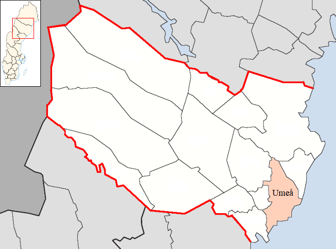 Umeå Municipality in Västerbotten County Designed by me. Mere outlines are a PD source from